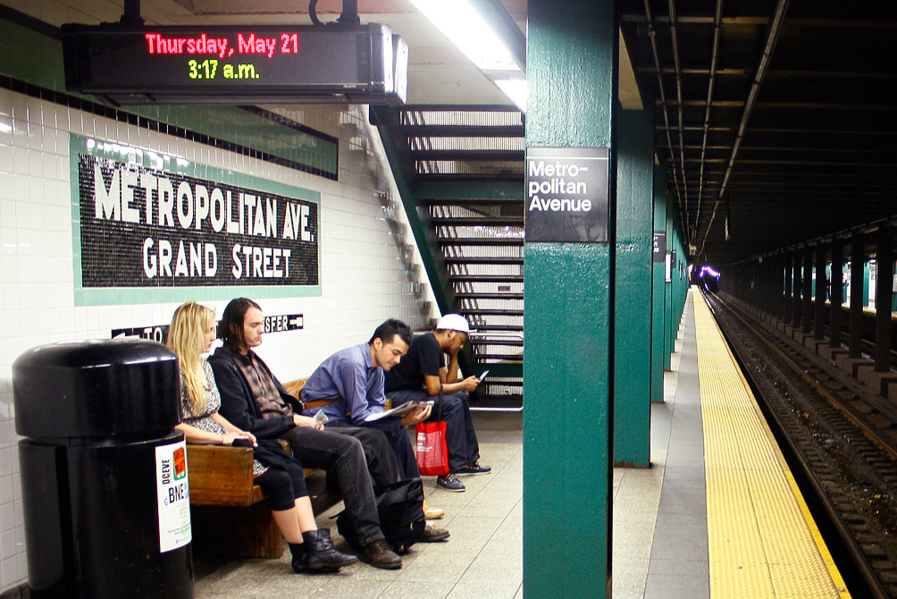 Thursday, 3:17am